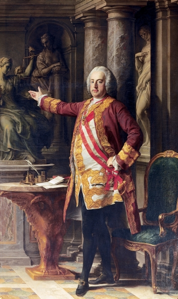 Portrait Francis I, Holy Roman Emperor (1708-1765)